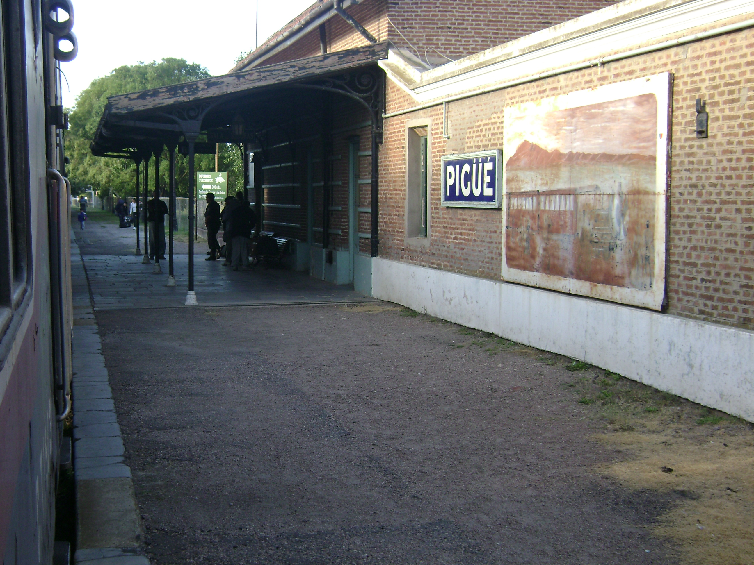 Pigüe Rail Station, Province of Buenos Aires, Argentina